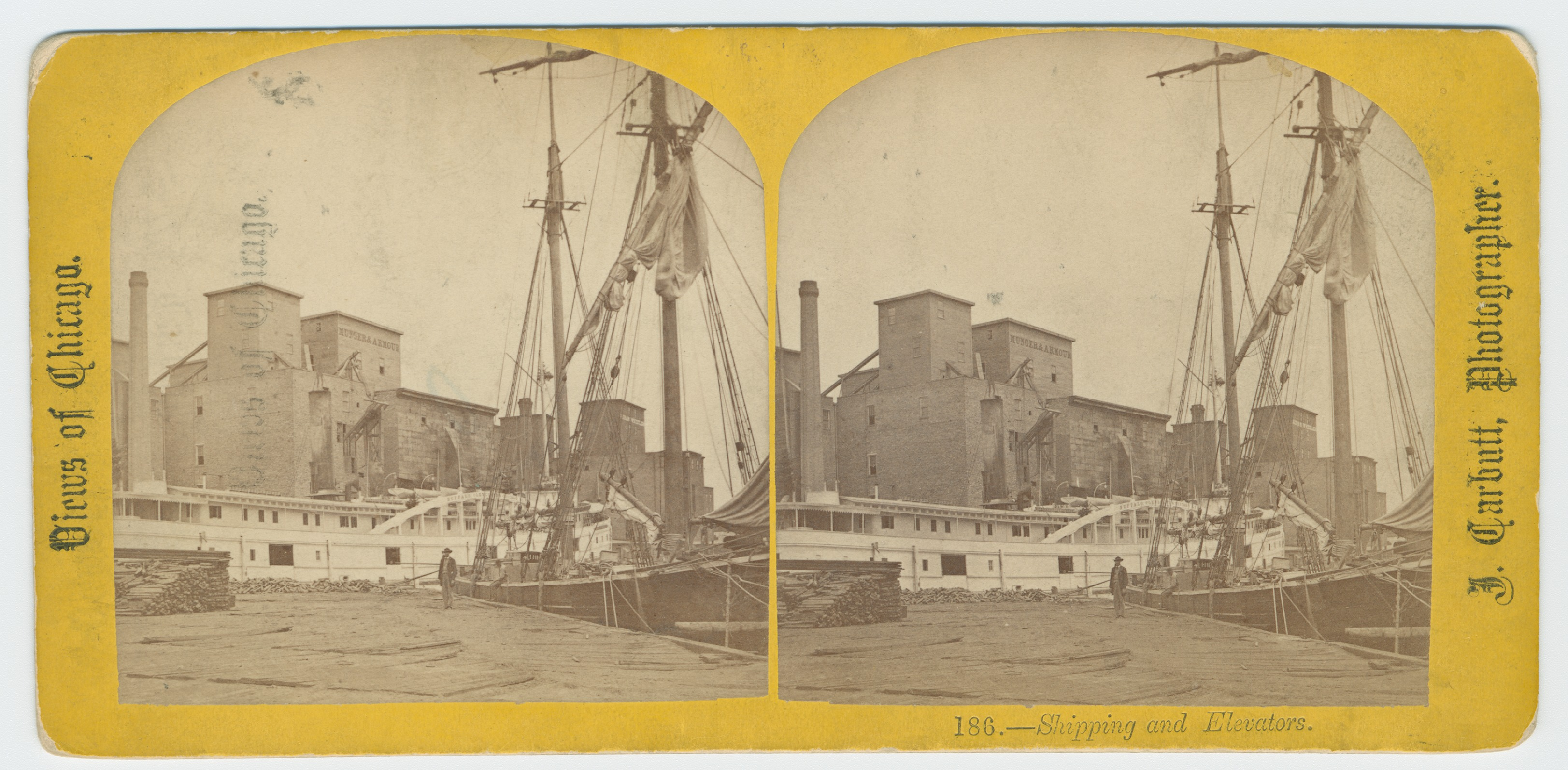 View of grain elevators and ships at dock in the Chicago River, Chicago, Illinois.